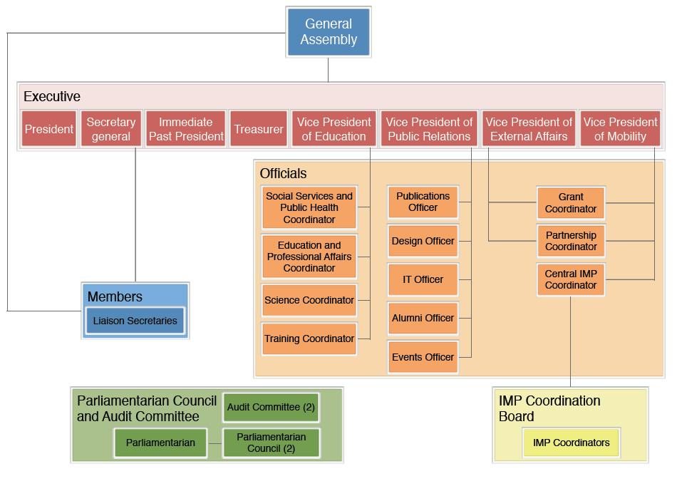 EPSA Structure voted at the EPSA Annual Congress in Krakow, Poland, in May 2010